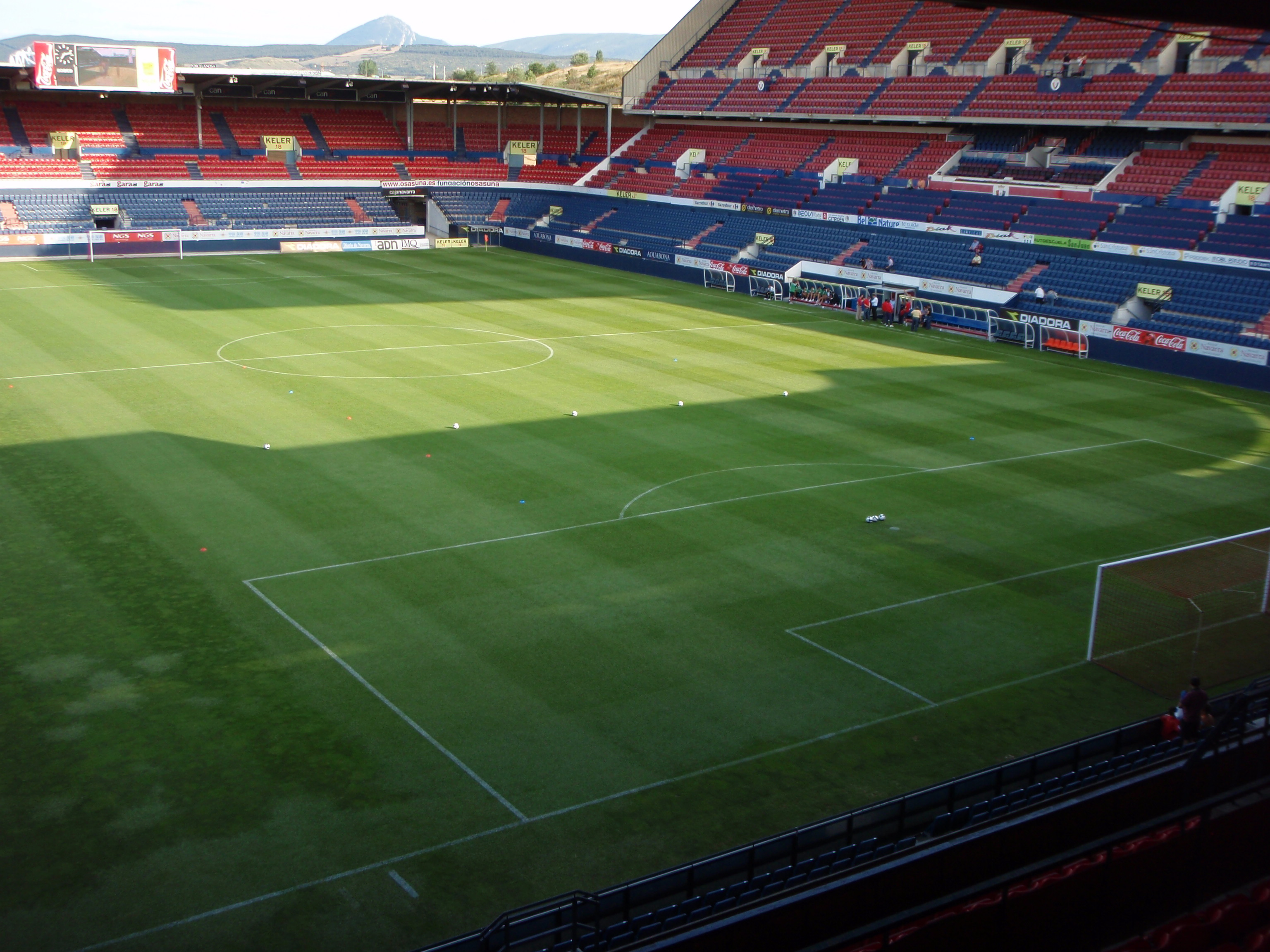 View of the inside of the Estadio Reyno de Navarra in Pamplona office.